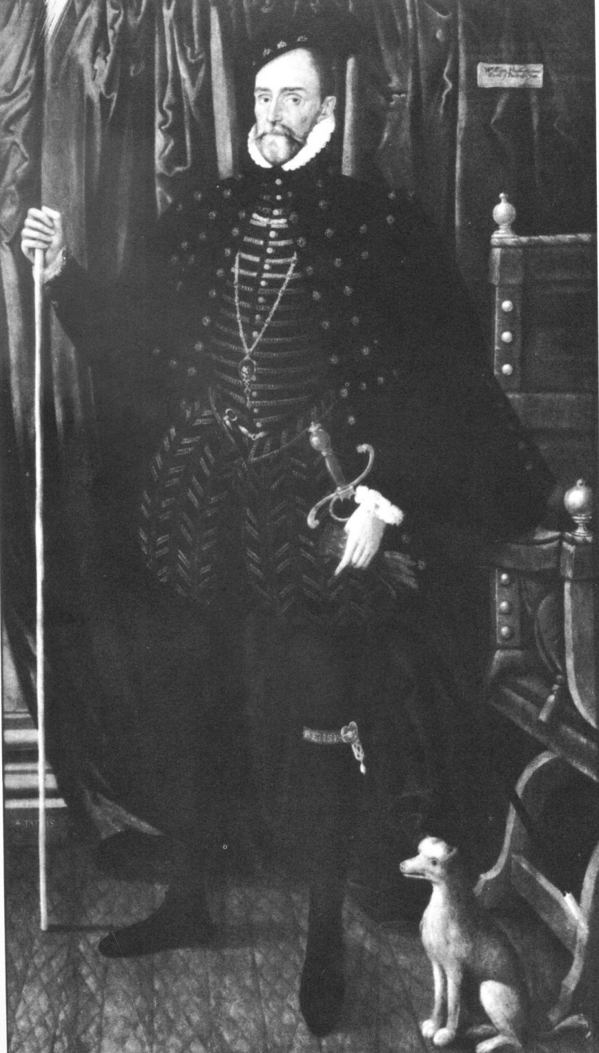 William Herbert, 1st Earl of Pembroke (c1501-1570)